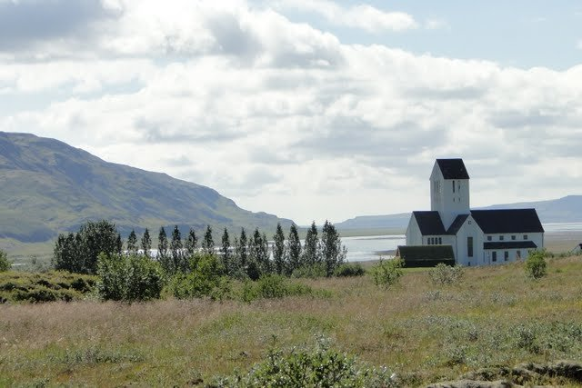 General view of Skalholt and the cathedral